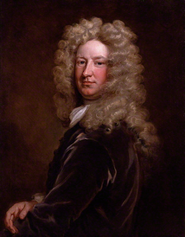 Sir Samuel Garth (1661–1719); oil on canvas, 35 1/2 in. x 27 3/4 in. (902 mm x 705 mm)